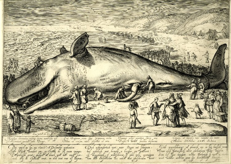 Engraving of a beached whale by Dutch artist Jacob Matham. Apparently made after an engraving by Hendrick Goltzius. With poems in Dutch and Latin.